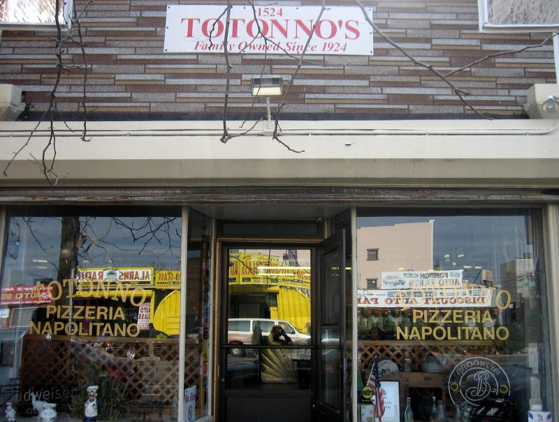 The original Totonno's Pizzeria in Coney Island.